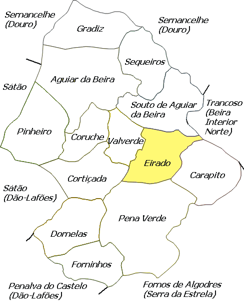 Map of Eirado parish in Portugal. Author: Kullanıcı:Mskyrider.